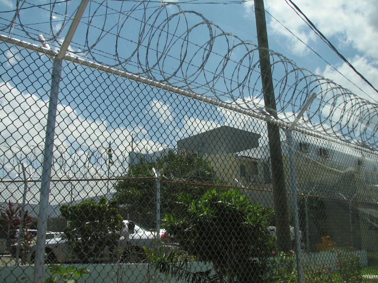 The two rows of barbed wire around South Camp